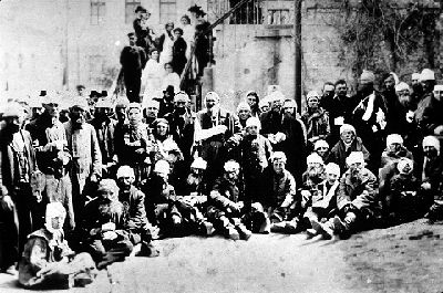 These Jewish refugees were the victims of violent religious persecutions in Russia in 1903. This group has just been treated in a Québec hospital before being moved west for settlement (courtesy PAM).